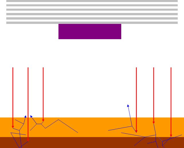 Top: EUV multilayer and absorber (purple)constituting mask pattern for imaging a line. Bottom: EUV radiation (red) reflected from the mask pattern is absorbed in the resist (amber) and substrate (brown), producing photoelectrons and secondary electrons (blue). These electrons increase the extent of chemical reactions in the resist, beyond that defined by the original light intensity pattern. As a result, a secondary electron pattern that is random in nature is superimposed on the optical image. The unwanted secondary electron exposure results in loss of resolution, observable line edge roughness and linewidth variation. Refs.: N. Felix et al., Proc. SPIE 9776, 97761O (2016); A. Saeki et al., Nanotech. 17, 1543 (2006); T. Kozawa et al., JVST B 25, 2295 (2007).